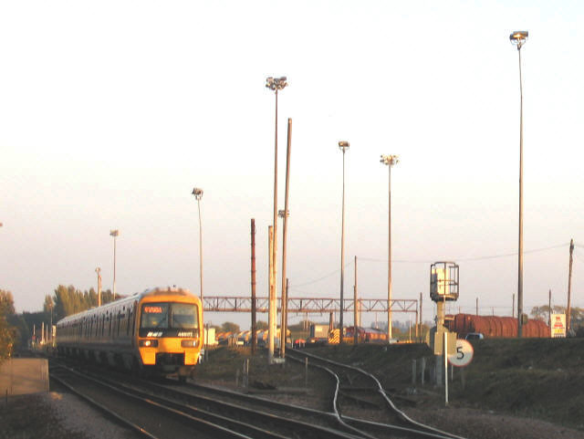 Hoo Junction